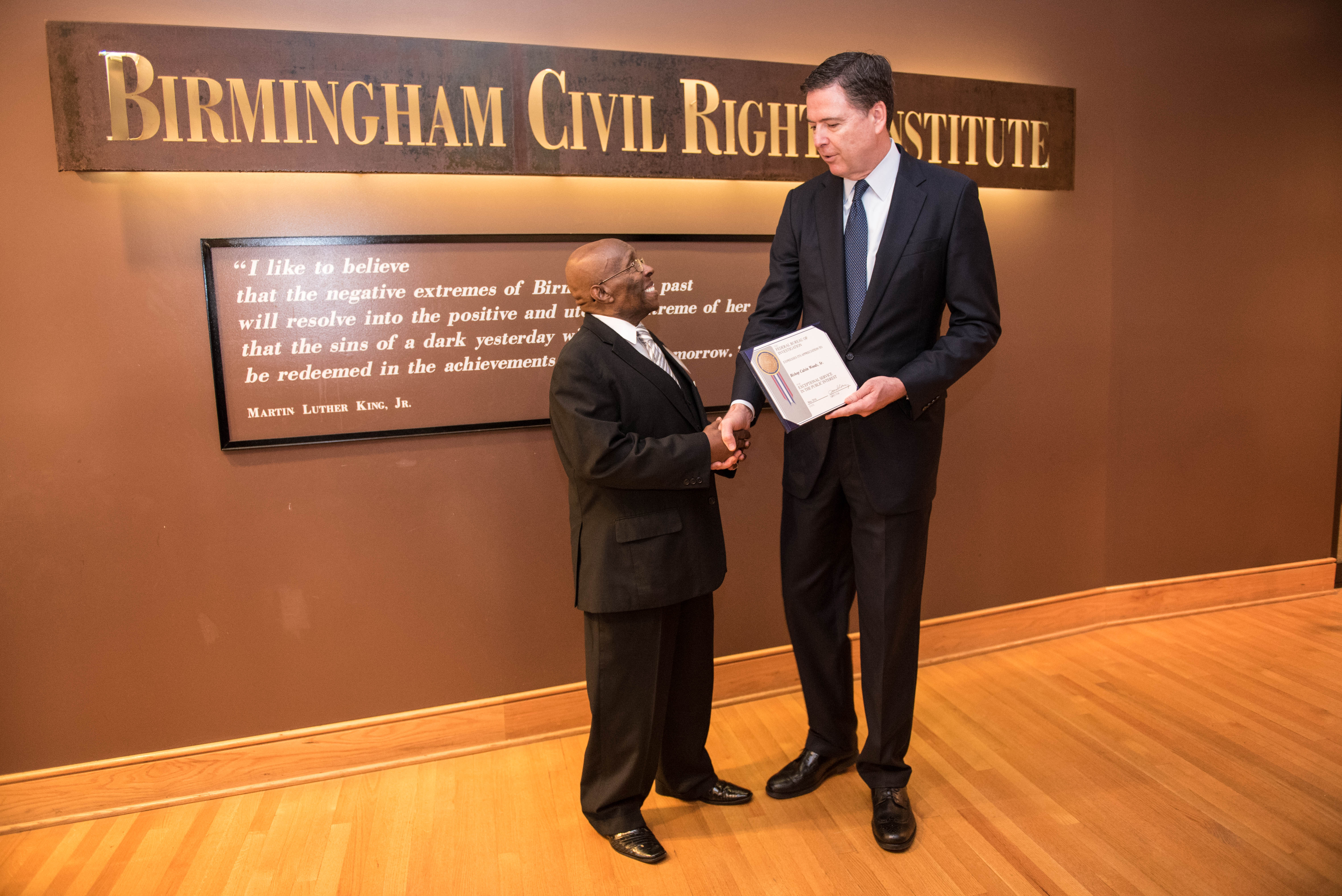 FBI Director James B. Comey provides a certificate to Bishop Calvin Woods at the Birmingham Civil Rights Institute (BCRI) on May 25, 2016 in Birmingham, Alabama. Bishop Woods was referenced in a speech Comey provided earlier in the day and was recognized for his efforts during the Civil Rights Movement in Birmingham during the 1960s. Comey provided remarks on civil rights and law enforcement at the historic 16th Street Baptist Church in Birmingham. Comey's speech was part of a two-day conference co-sponsored by the FBI and BCRI. The conference theme "Race and Law Enforcement: It's More Than Just Black and White" expands on previous lessons and discussions from conferences of years past. Full story